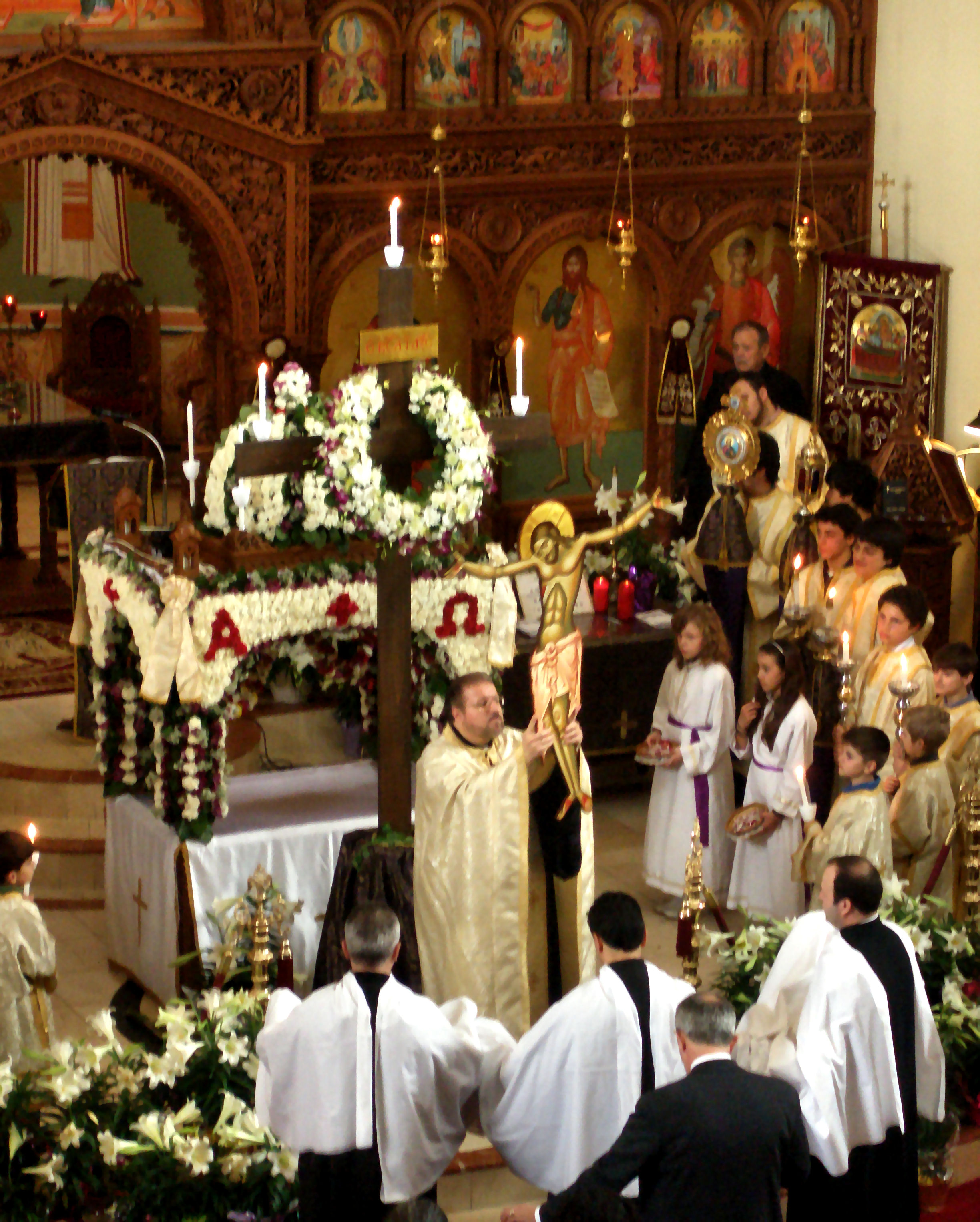 The Descent from the Cross of Christ (Greek: Ἀποκαθήλωσις, Apokathelosis), commemorated during the Vespers of Good Friday afternoon (The Apokathylosis Service), 2010. Annunciation of the Virgin Mary Greek Orthodox Cathedral, Toronto, Ontario, Canada.